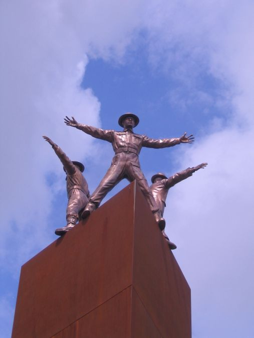 Monument at the place of Heydrich assasination